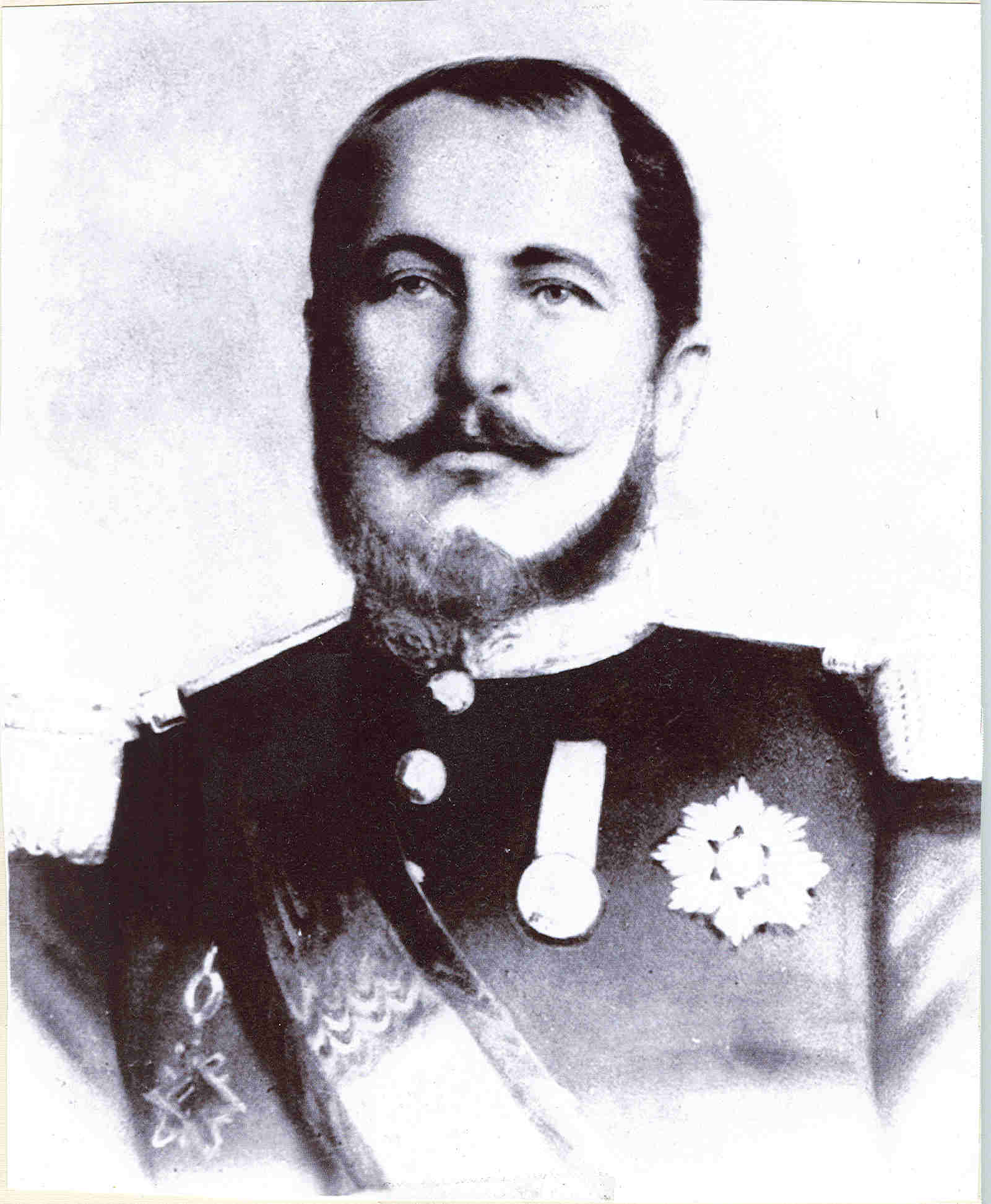 General Tomas Martinez Guerrero President of Nicaragua